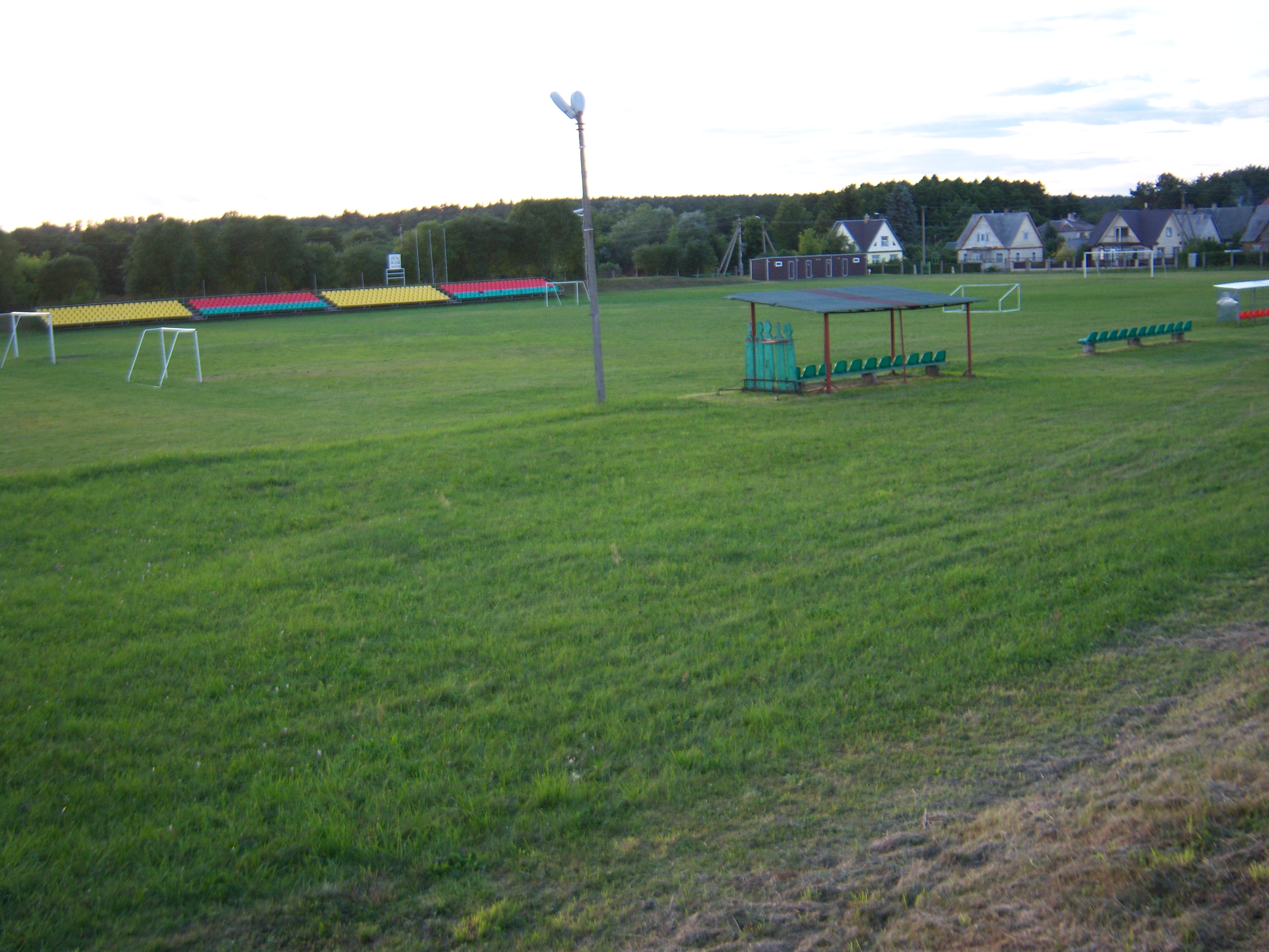 Football stadium, Anykščiai, Lithuania